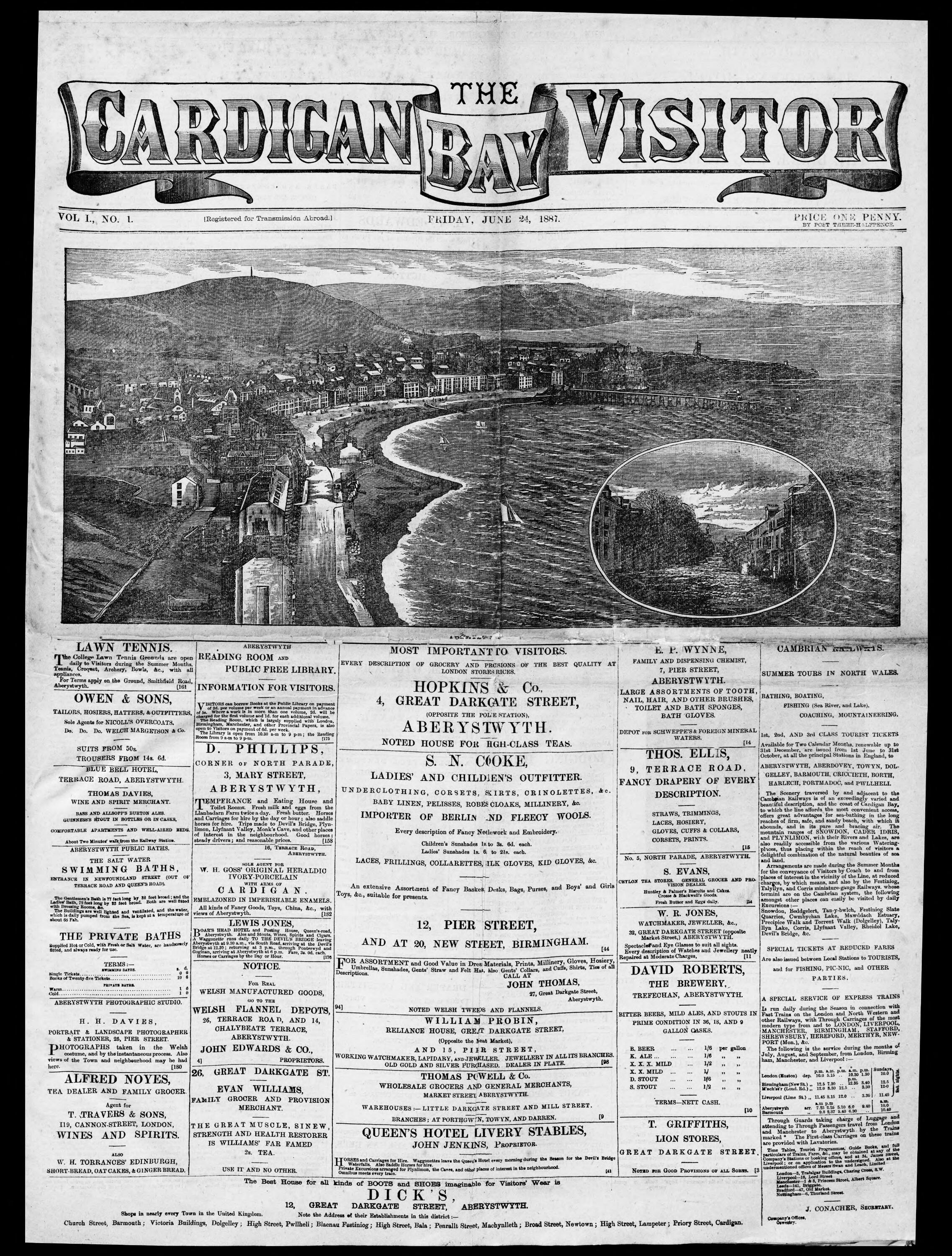 Front page of the earliest surviving copy of the Welsh newspaper The Cardigan Bay Visitor